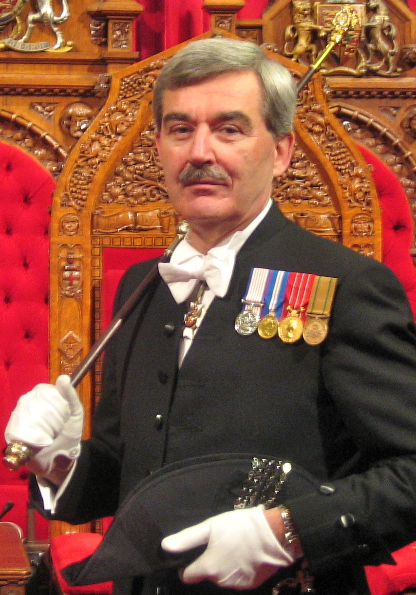 This is a picture of Kevin MacLeod taken in the Canadian Senate Chamber